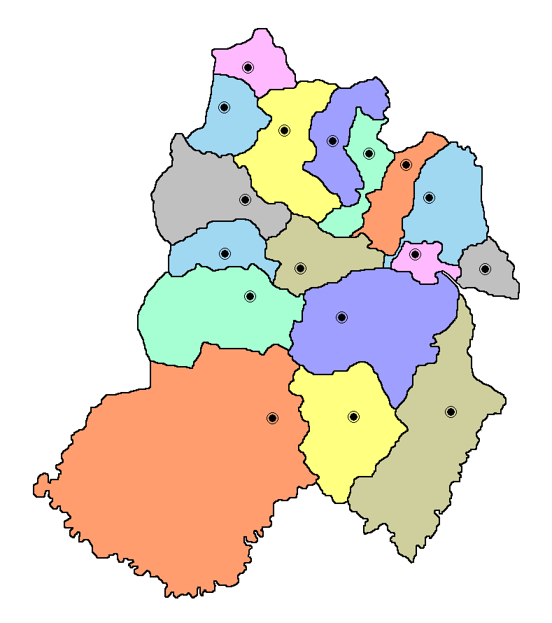 Administrative division of the department of Paraguarí in Paraguay